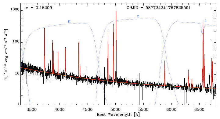 GANDALF spectrum for SDSS 587724241767825591